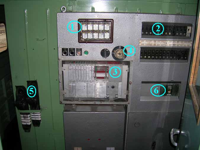 The rack behind the cab of a Russian ChS7 electric mainline DC passenger locomotive. (1) Block signalling [блинкерных (?)] relay; (2) block automatic safety switch control circuit; (3) 750 block of Hughes detection and slipping; (4) emergency shutdown switch 312 sections; (5) brake shoes; (6) automatic battery switching.